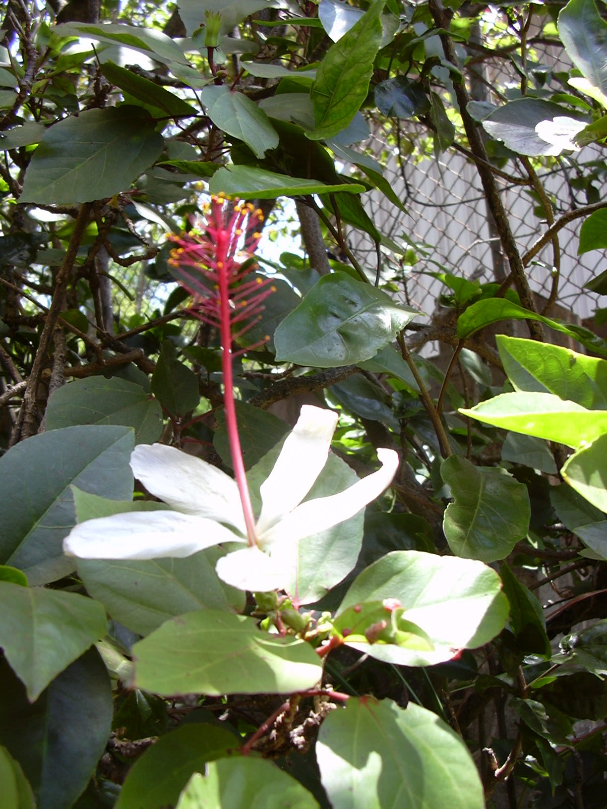 Hibiscus arnottianus subsp. arnottianus (flower). Location: Maui, State nursery Kahului